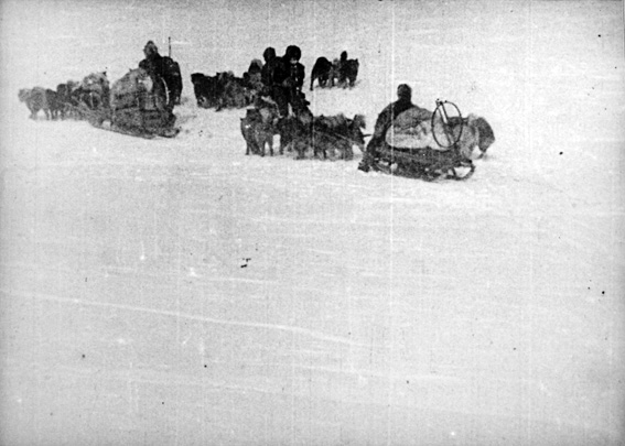 Beskrivelse: "Roald Amundsen starter turen mot Sydpolen 19. oktober 1911. Det ble ikke tatt noe fotografi ved denne anledning, bildet er tatt ut av en film med levende bilder." Fotograf: Amundsenekspedisjonen Arkivreferanse: Riksarkivet, UD Avdeling for presse, kultur og informasjon, Uc1, Roald Amundsen Starting up Description: "Roald Amundsen starting his trip to the South Pole, October 19, 1911. There was no photograph taken at this occation, this photo is taken from a film with moving images." Photo: The Amudsen expedition